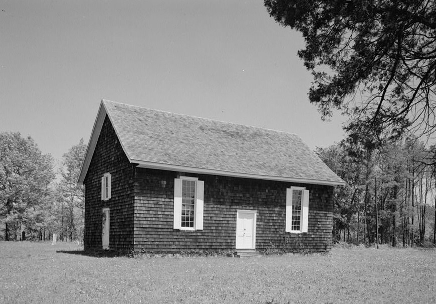 Prince George's Chapel, Route 26, Dagsboro (Sussex County, Delaware) cropped This file comes from the Historic American Buildings Survey (HABS), Historic American Engineering Record (HAER) or Historic American Landscapes Survey (HALS). These are programs of the National Park Service established for the purpose of documenting historic places. Records consist of measured drawings, archival photographs, and written reports. When reusing please credit: Library of Congress, Prints & Photographs Division, DEL,3-DAG,1-7 This tag does not indicate the copyright status of the attached work. A normal copyright tag is still required. See Commons:Licensing. This work is in the public domain in the United States because it is a work prepared by an officer or employee of the United States Government as part of that person’s official duties under the terms of Title 17, Chapter 1, Section 105 of the US Code. Note: This only applies to original works of the Federal Government and not to the work of any individual U.S. state, territory, commonwealth, county, municipality, or any other subdivision. This template also does not apply to postage stamp designs published by the United States Postal Service since 1978. (See § 313.6(C)(1) of Compendium of U.S. Copyright Office Practices). It also does not apply to certain US coins; see The US Mint Terms of Use. This file has been identified as being free of known restrictions under copyright law, including all related and neighboring rights. Object location38° 32′ 54″ N, 75° 14′ 22″ W